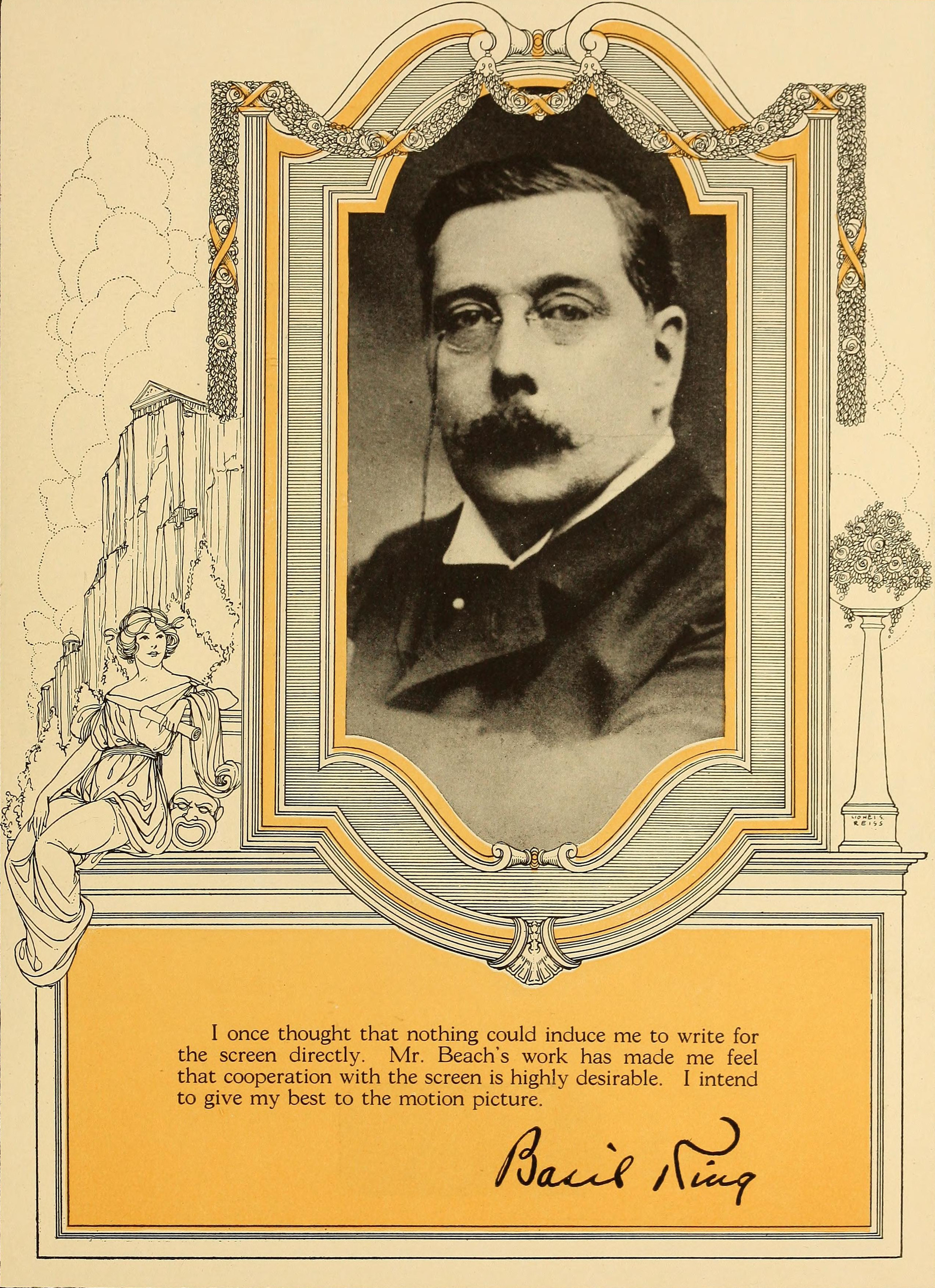 Author Basil King in an ad for a film, on page 449 of the July 12, 1919 Motion Picture News.